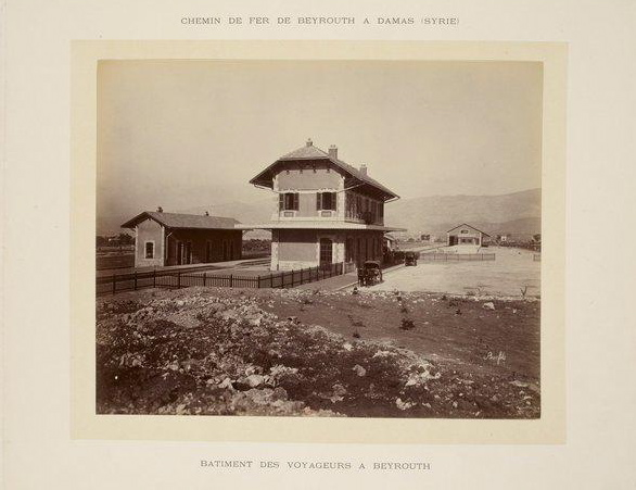 Batiment de voyageurs a Beyrouth